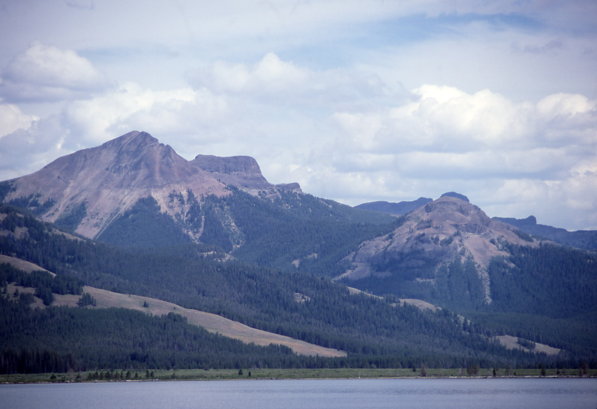 Colter Peak and Turret Mountain, Yellowstone National Park, 1977